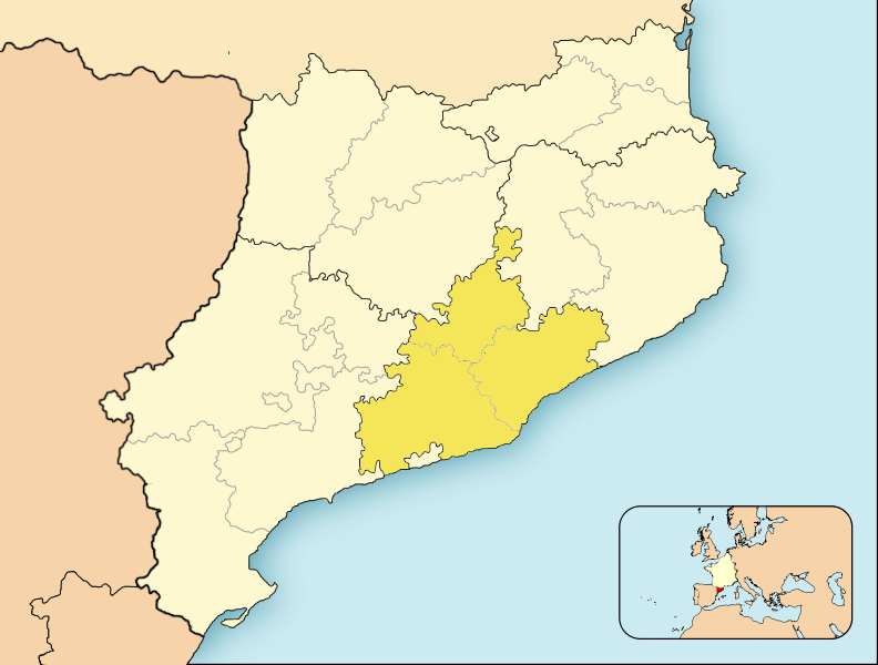 Departament de Montserrat